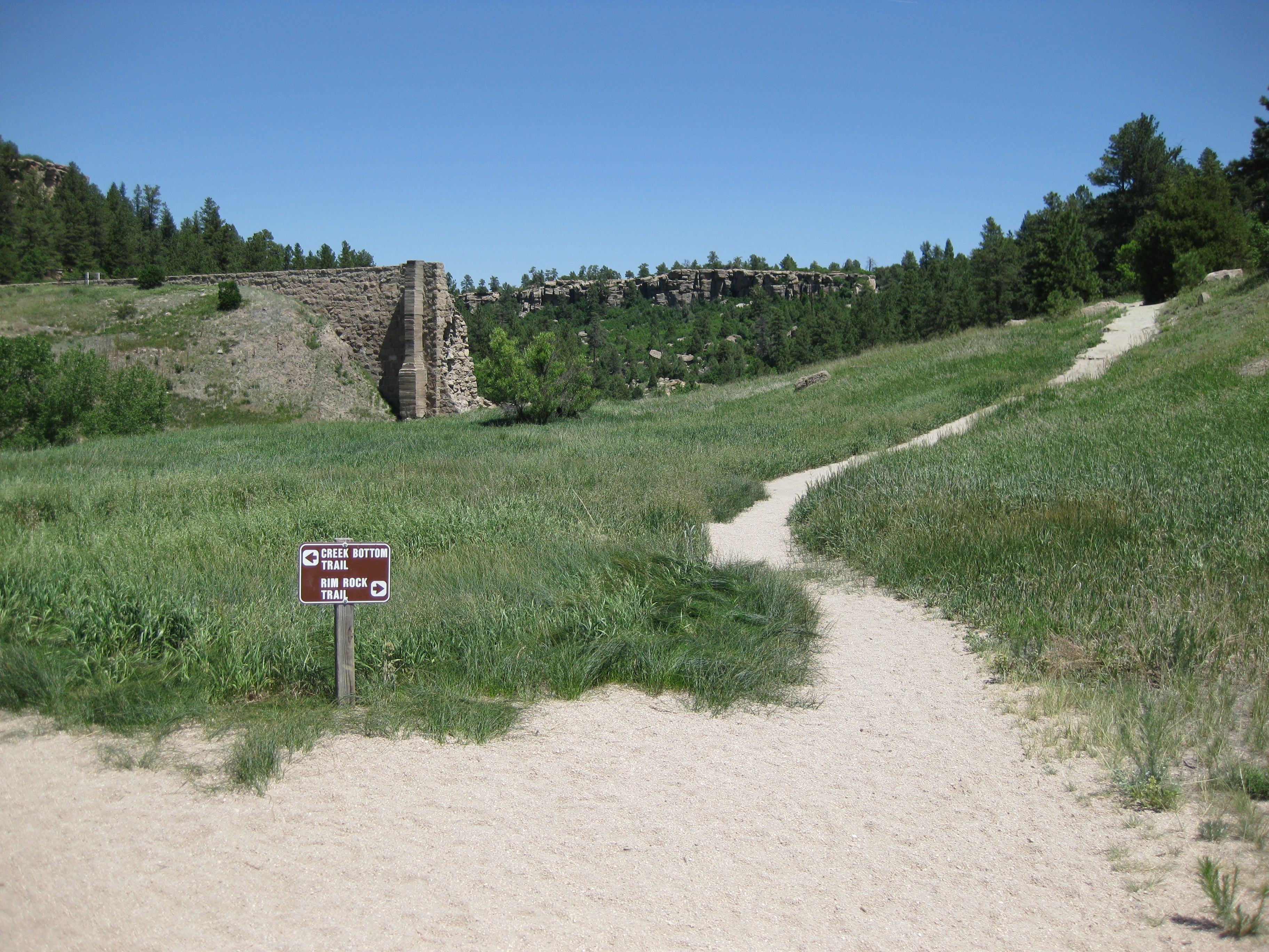 Looking north from the former "lake bottom" to the remains of Castlewood Dam in Castlewood Canyon State Park, Colorado, U.S.A.